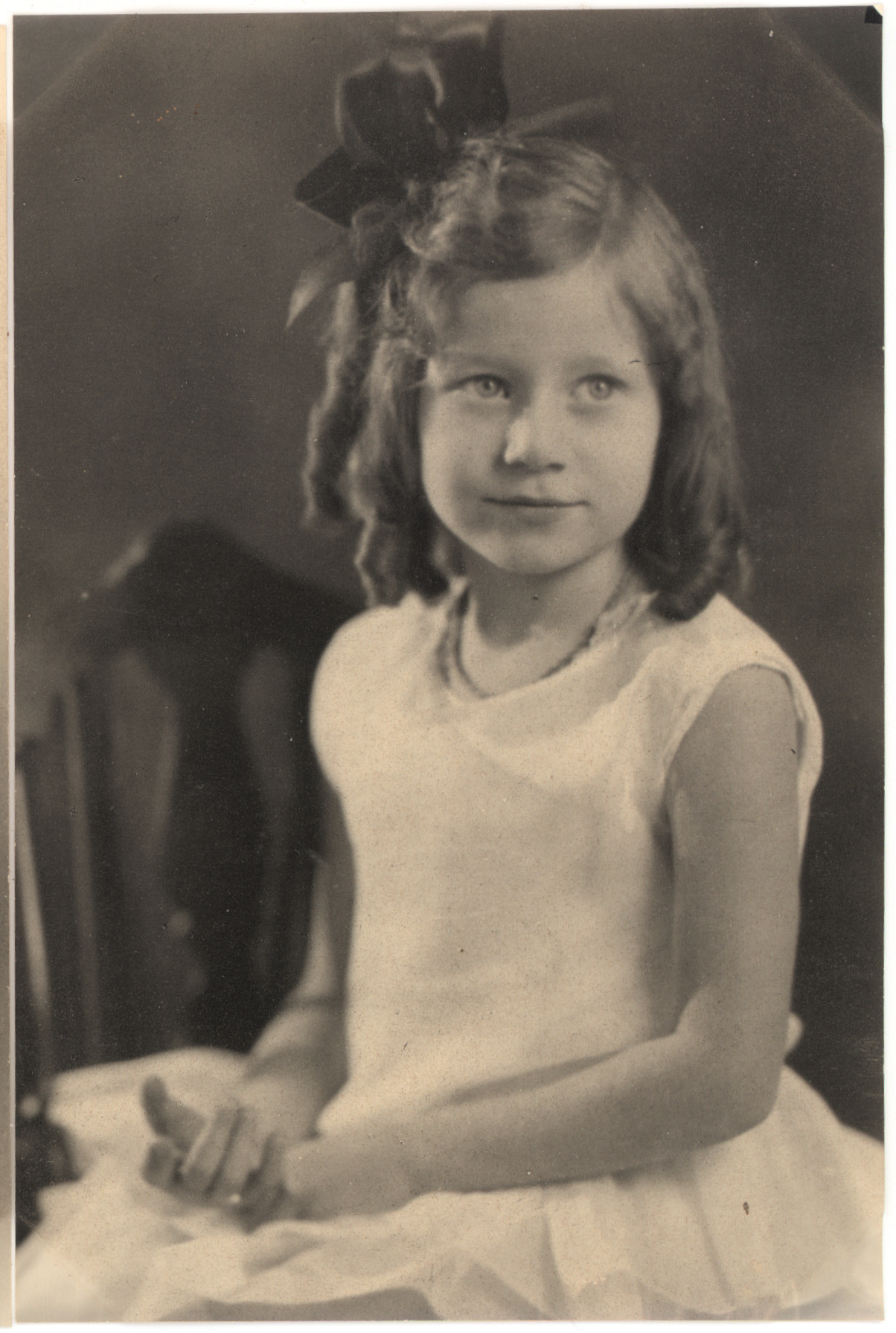 Portrait of girl with curly hair